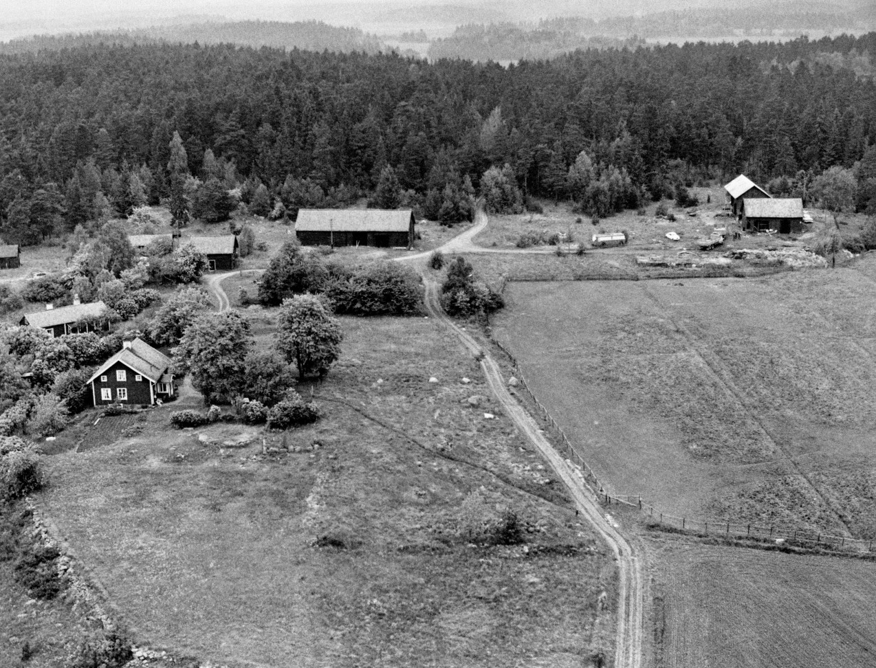 FOTOGRAFI: Flygbild över Stora Tensta by mot nordväst, troligen från 1950-talet. 1951-1959 FOTOGRAF: Okänd.BILDNUMMER: FA 32223Stadsmuseet i Stockholm